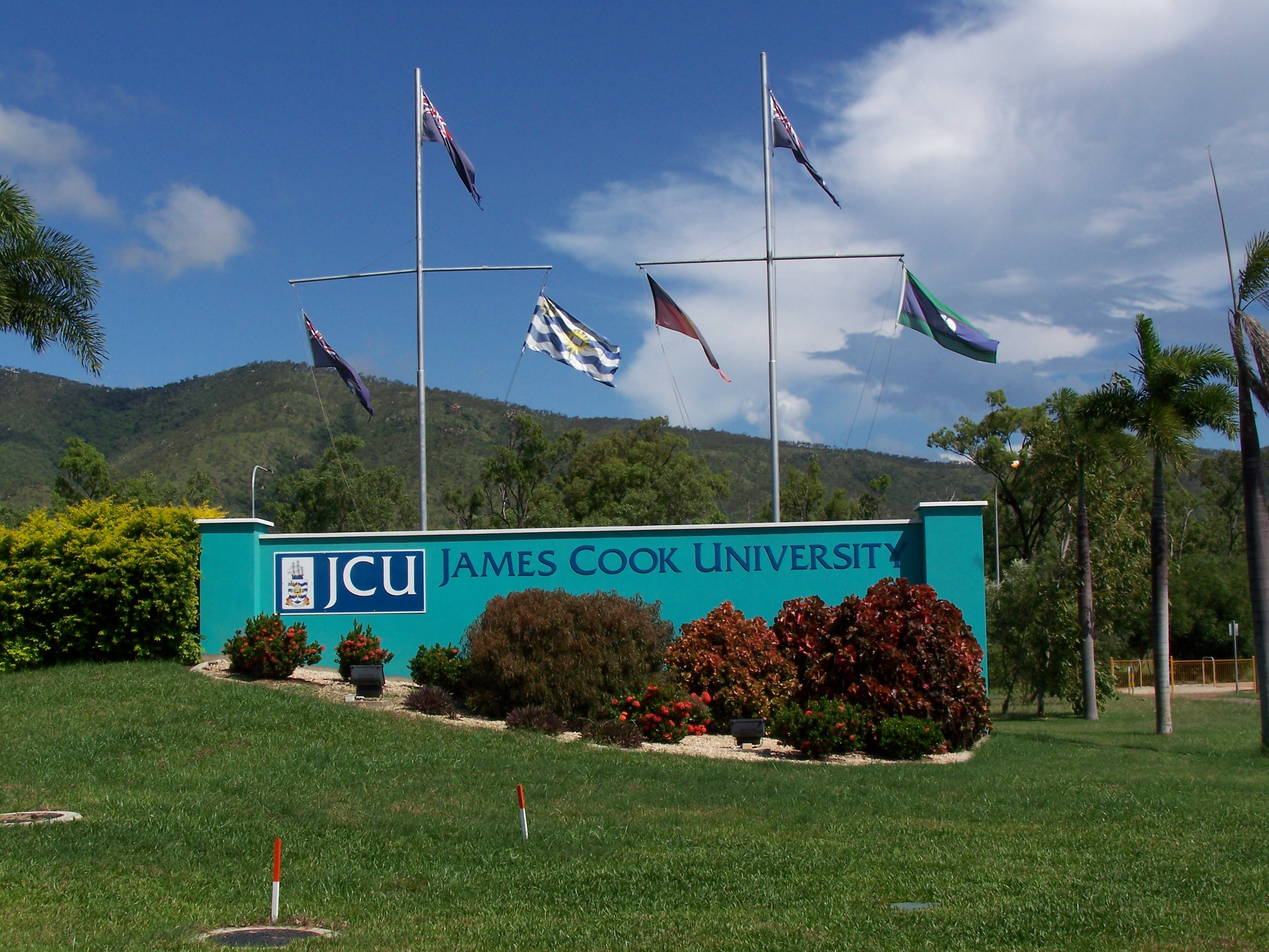 James Cook University Entrance